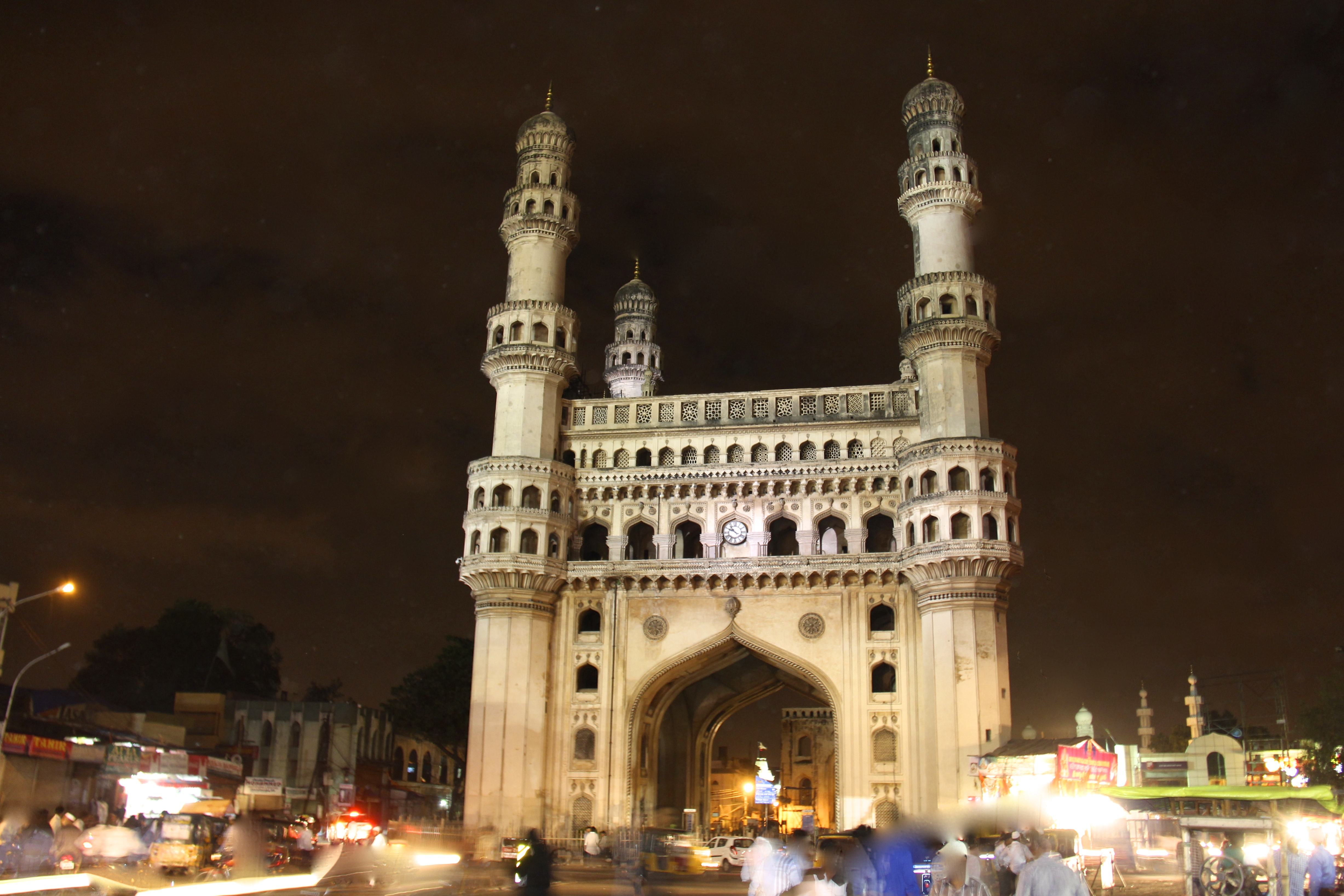 these are the pictures of charminar taken on a cloudy night of Eid in 2013